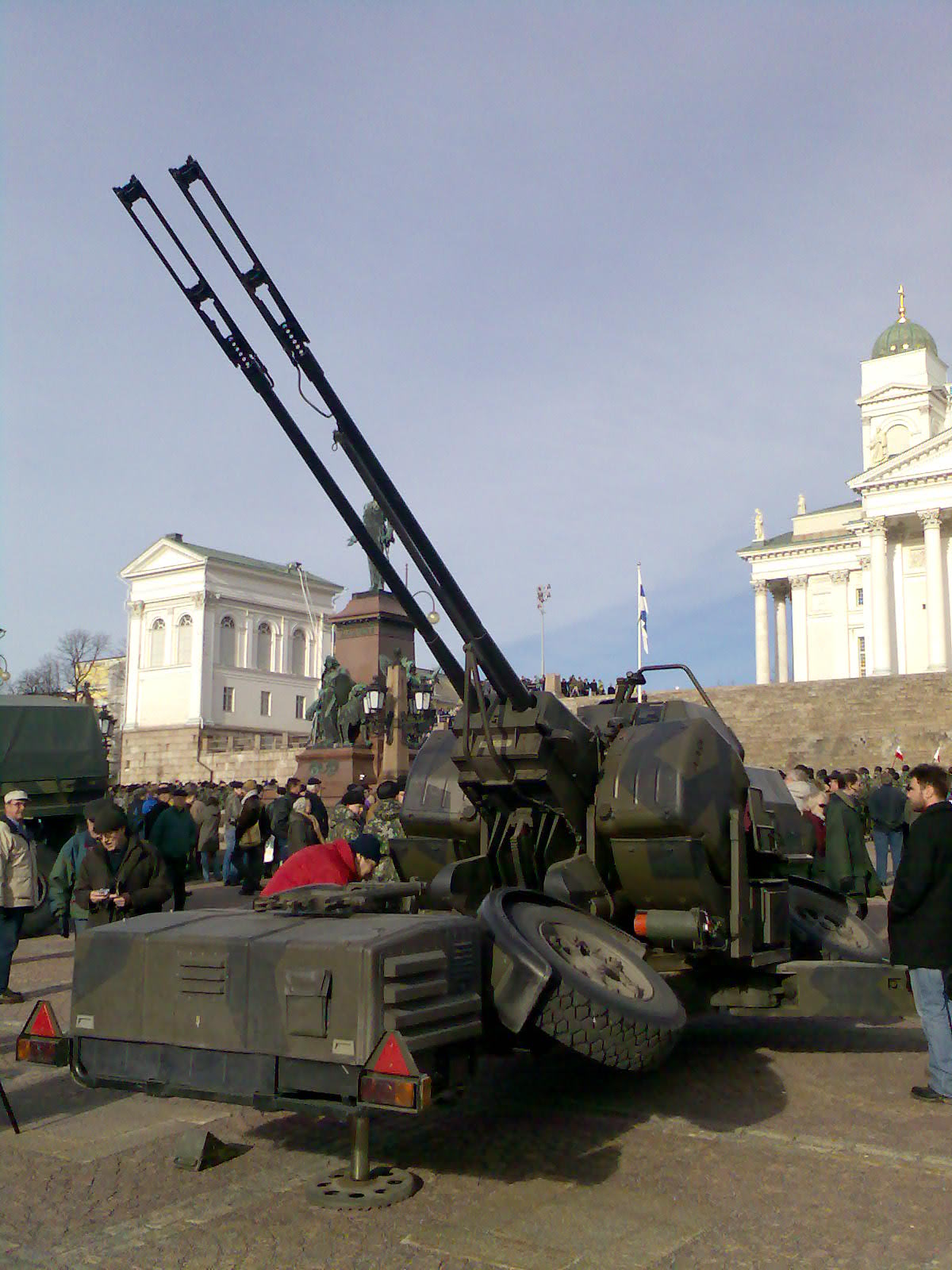 Finnish Oerlikon 35 mm twin cannon (35 ITK 88) on display in Helsinki